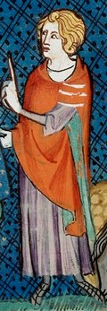 Fulk IV of Anjou